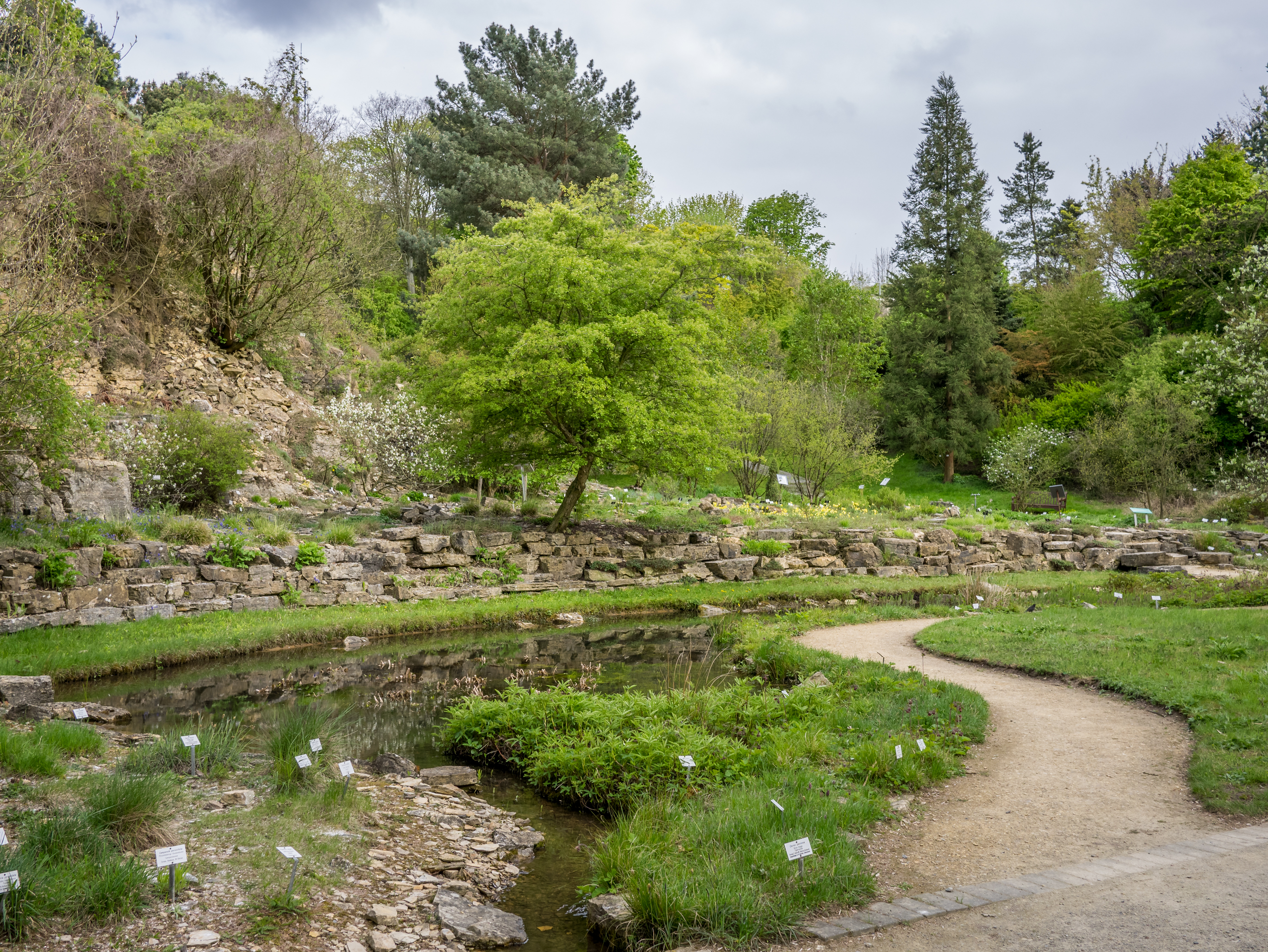 Vegetation area "Swabian Jura" in the Botanical Garden. Osnabrück, Lower Saxony, Germany